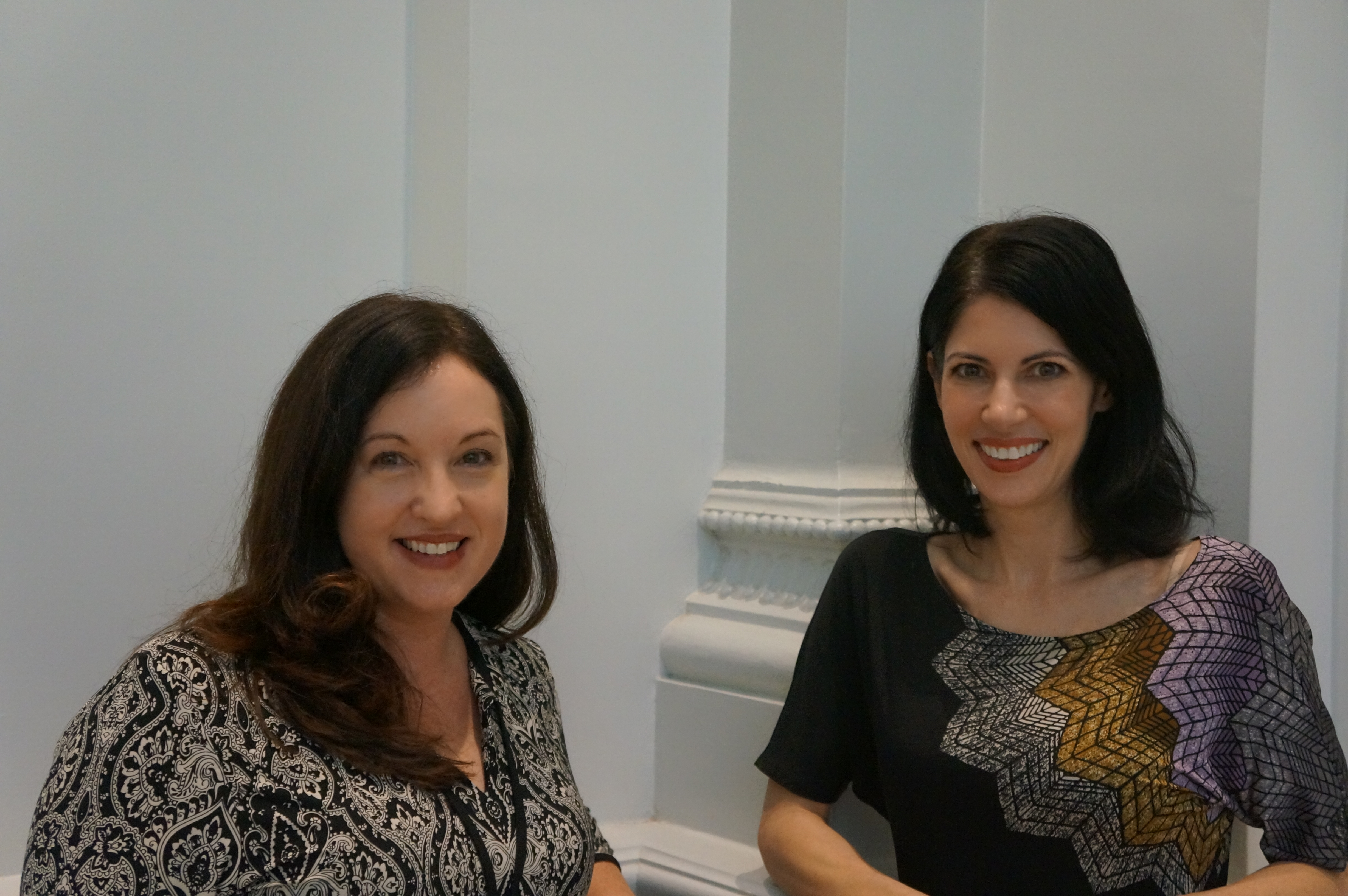 At the Renwick Gallery, Nora Atkinson, the Lloyd Herman Curator of Craft, with Susan Marks during display of the new film Murder in a Nutshell: The Frances Glessner Lee Story.